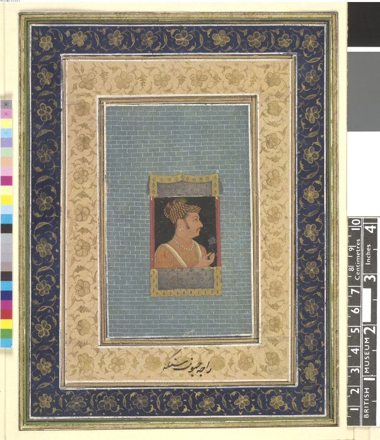 Album leaf, removed from album, with decoration on both recto and verso; painting. On paper. On recto: Portrait. Maharajah Jaswant Singh, with inscription. On verso: Calligraphy and marginal floral decoration.